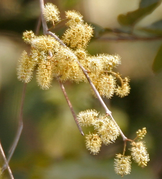 Piluki, oval-leaved wheel creeper, Dhavshira, Pewar Wel, Pilokha, Verragay, Odaikodi, Vennangukodi, Geddepeyyeru, Shirtal Boddi, Putangi, Yada-tige or ulavai maram Combretum albidum in Kinnerasani Wildlife Sanctuary, Andhra Pradesh, India.